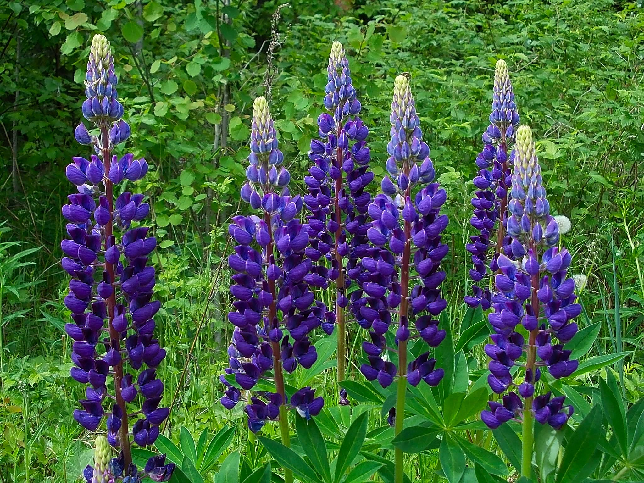 Lupinus texensis